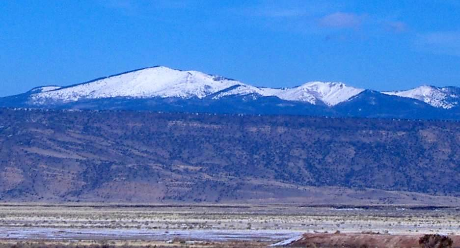 Mount Taylor, a volcano in western New Mexico Cibola County, New Mexico. ANNAfoxlover 00:23, 30 January 2007 (UTC)